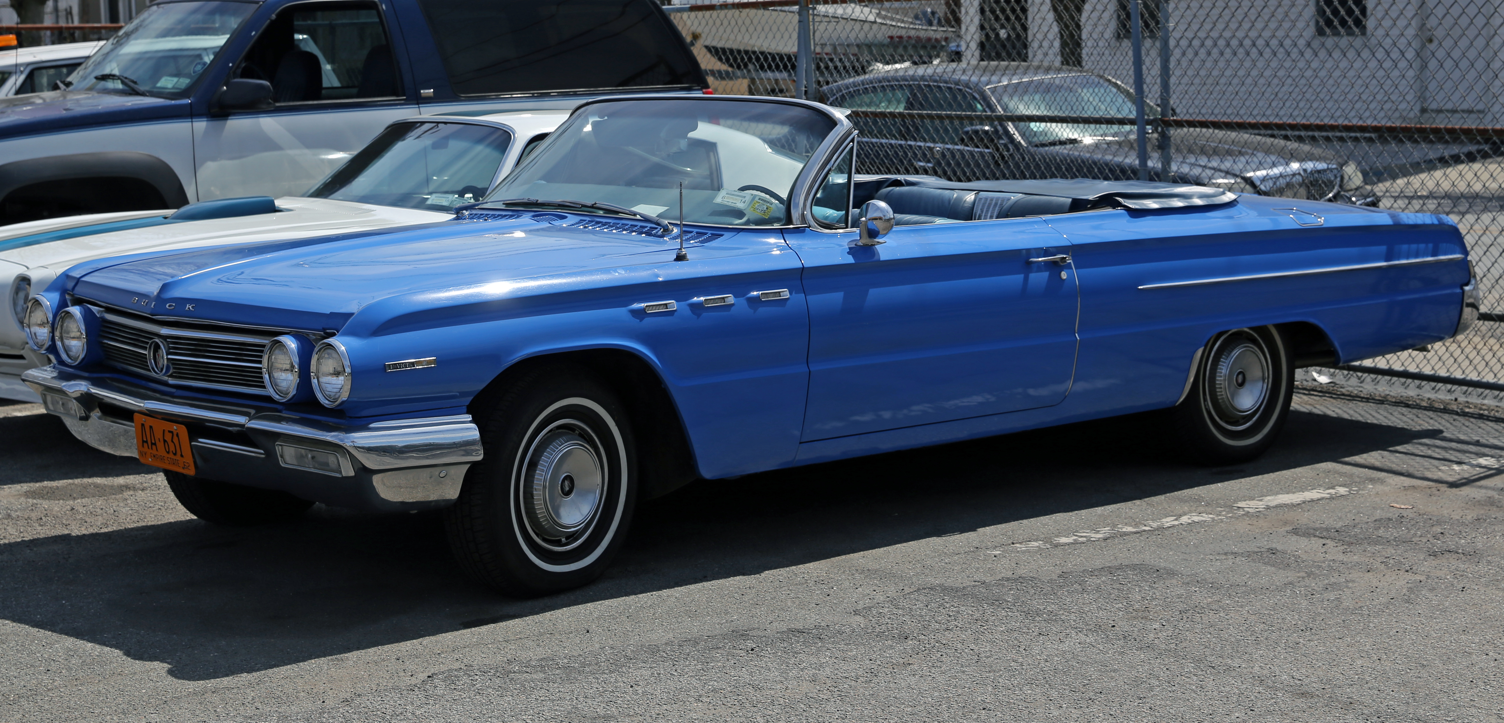 A 1962 Buick Invicta convertible, built in South Gate, CA.